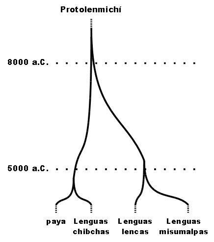 Lenmichi family of languages. Chibchan languages. Misumalpan languages. Lenca languages.